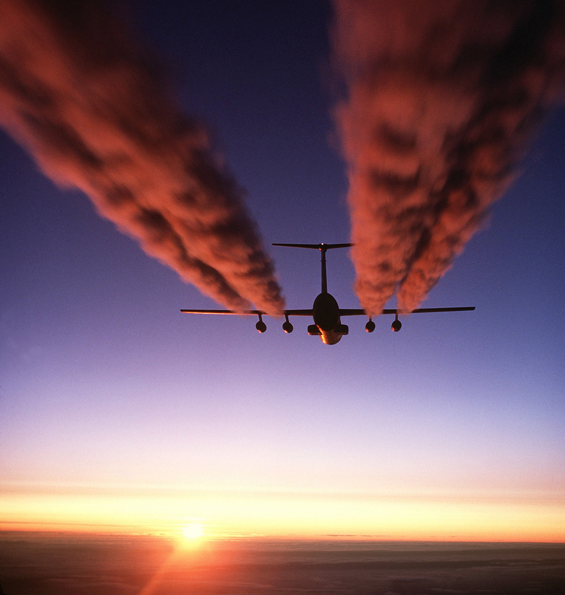 A C-141 Starlifter leaves a contrail over Antarctica.